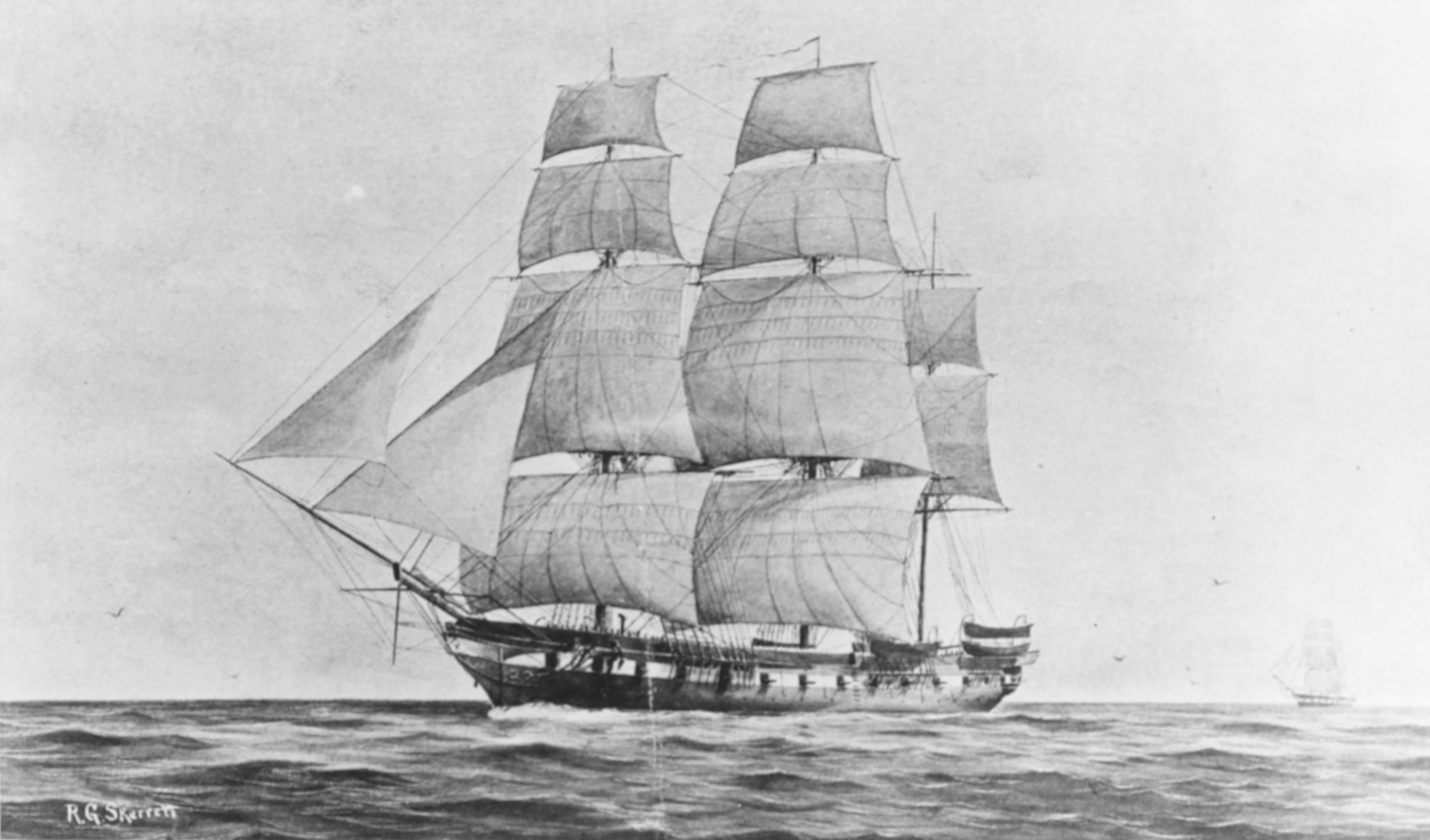 USS Cumberland wash drawing by R.G. Skerret